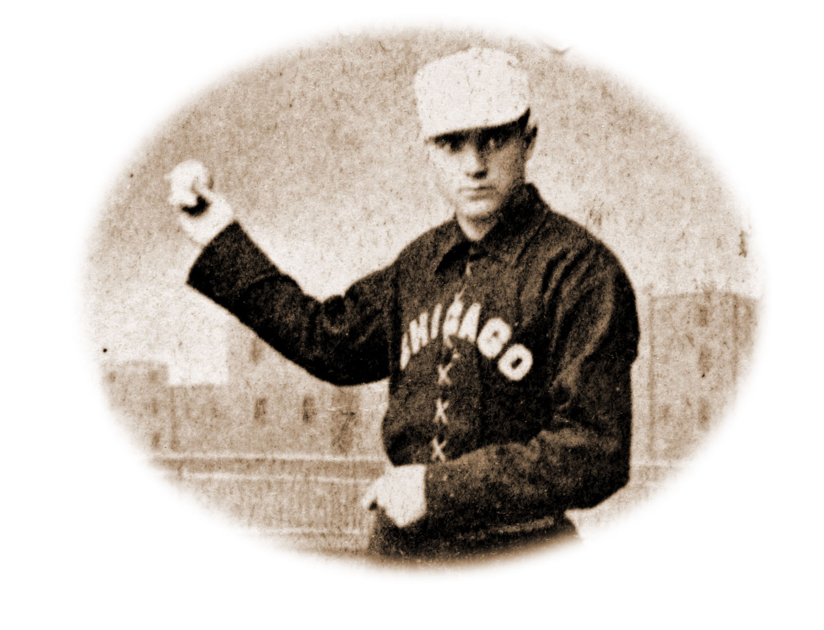 Billy Sunday with the White Stockings (Old Judge Cigarettes)